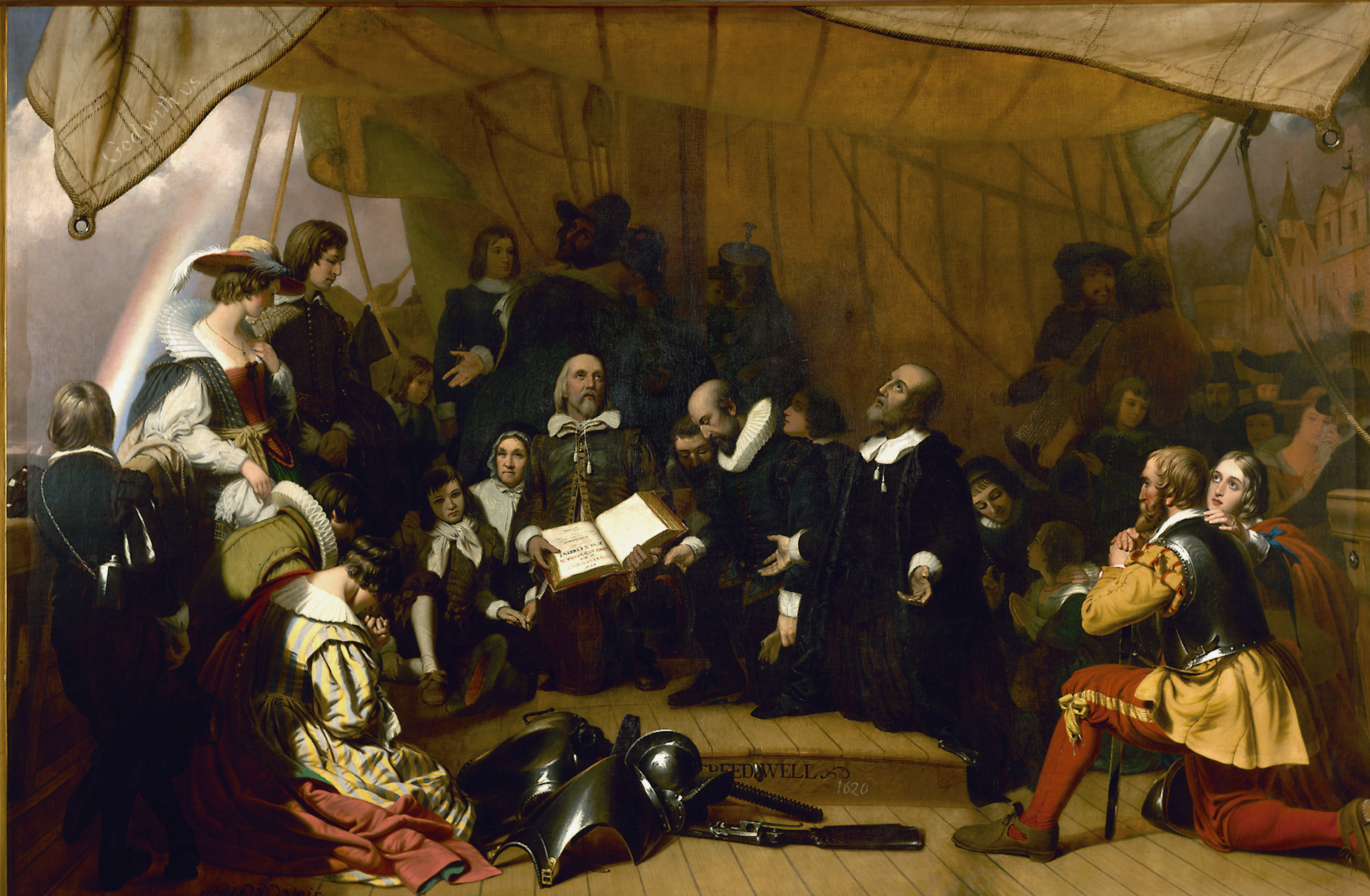 Protestant pilgrims are shown on the deck of the ship Speedwell before their departure for the New World from Delft Haven, Holland, on July 22, 1620. William Brewster, holding the Bible, and pastor John Robinson leading Governor Carver, William Bradford, Miles Standish, and their families in prayer. The prominence of women and children suggests the importance of the family in the community. At the left side of the painting is a rainbow, which symbolizes hope and divine protection.Weir (1803–1890) had studied art in Italy and taught art at the military academy at West Point. The dimensions of this oil painting on canvas are 548 cm x 365 cm (216 inches x 144 inches; 18 feet x 12 feet)